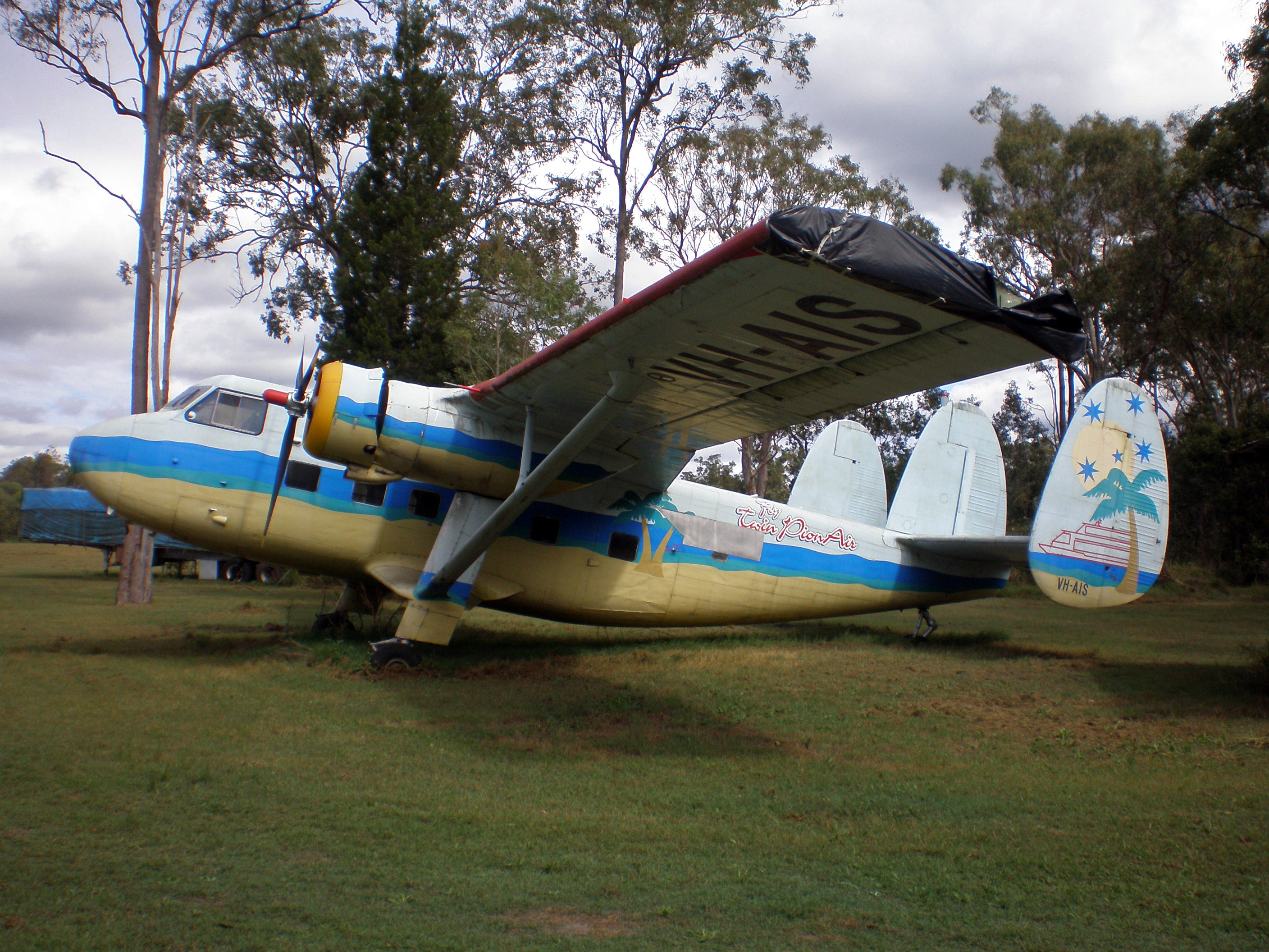 Scottish Aviation Twin Pioneer Srs3, VH-AIS at Bradfield airstrip in Queensland's Lockyer Valley.